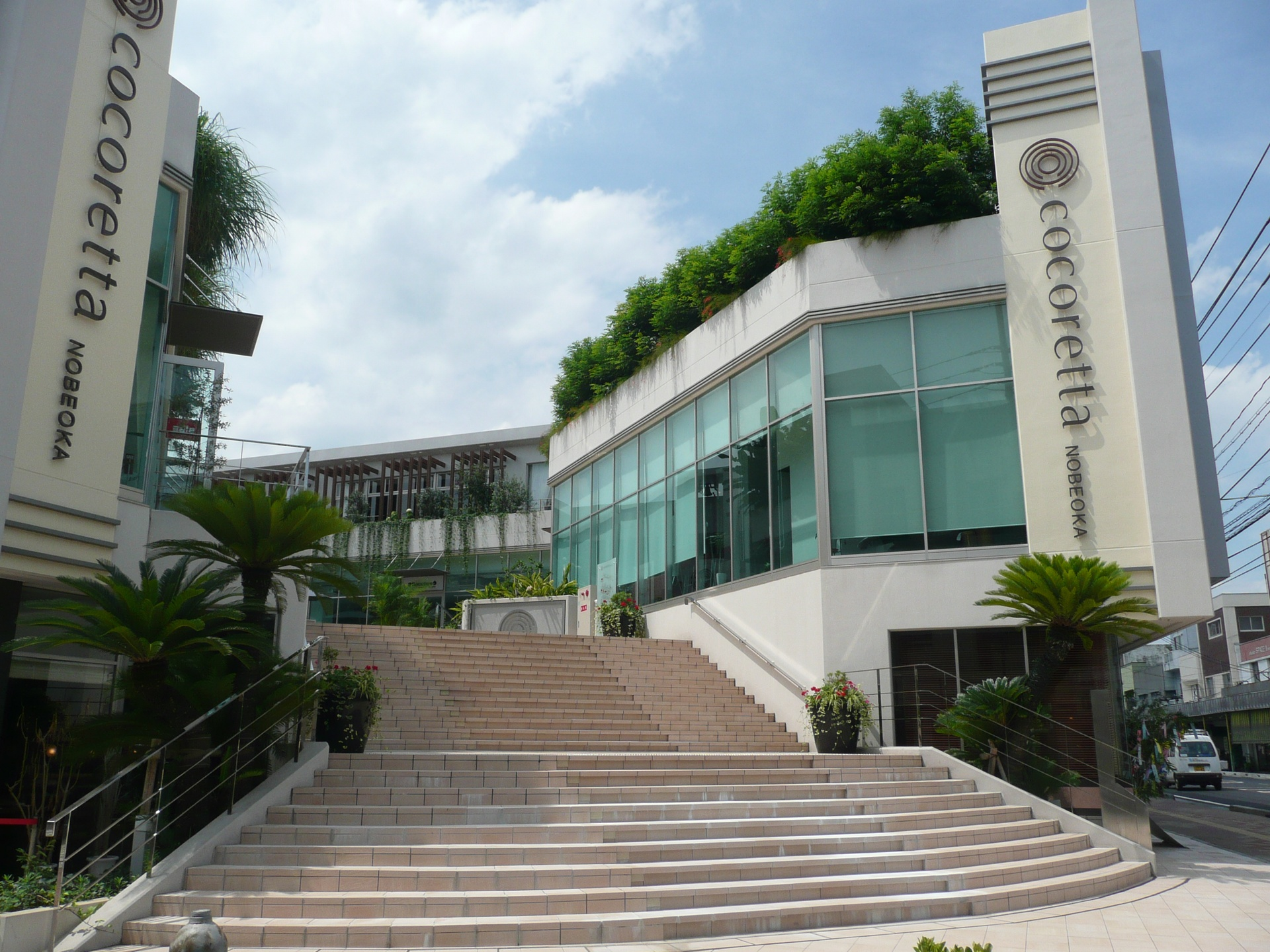 cocoretta Nobeoka (Nobeoka, Miyazaki, Japan)